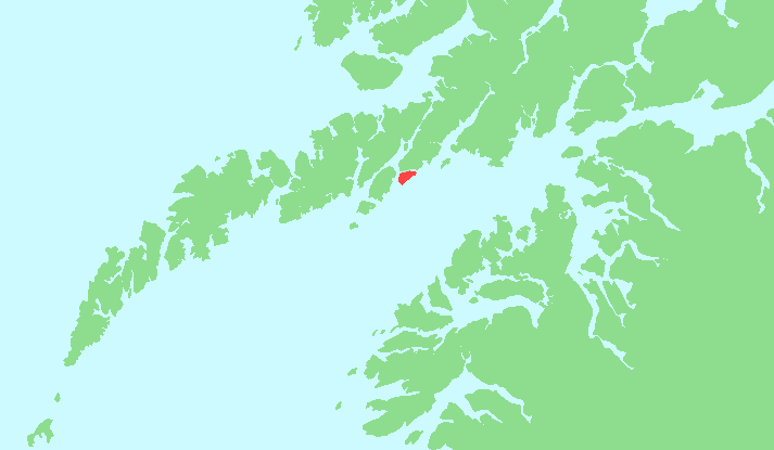 Locator map of Årsteinen, Nordland, Norway